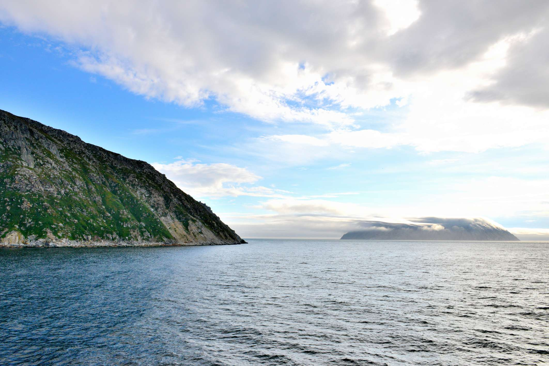 Big Diomede Island (Bering Strait, Russia; 65°47‘36‘‘N, 169°3‘54‘‘W)